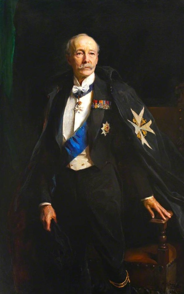 This image shows Major General Aldred Frederick George Beresford Lumley, 10th Earl of Scarbrough, KG, GBE, KCB, GCStJ. It was painted in 1930 by Philip Alexius de László (1869–1937). Aldred Lumley is shown wearing his mantle as Sub-Prior of the Order of St John. The painting is currently in the collection of the Museum of the Order of St John in London.